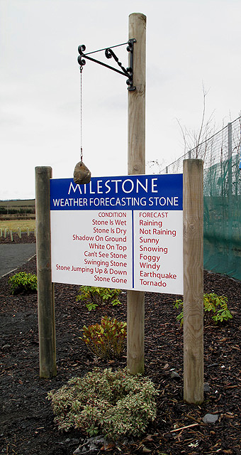 The Milestone weather forecasting stone. The stone is near the entrance to the Milestone Garden Centre in Newtown St Boswells 426046. While good at assisting with the current weather conditions it might be tricky to predict what would happen in the following days, but there again the MET Office sometimes gets the forecast wrong. The range of weather situations includes, raining (stone is wet), sunny (shadow on ground) and snowing (white on top). I like this garden centre feature as it appeals to my sense of humour.